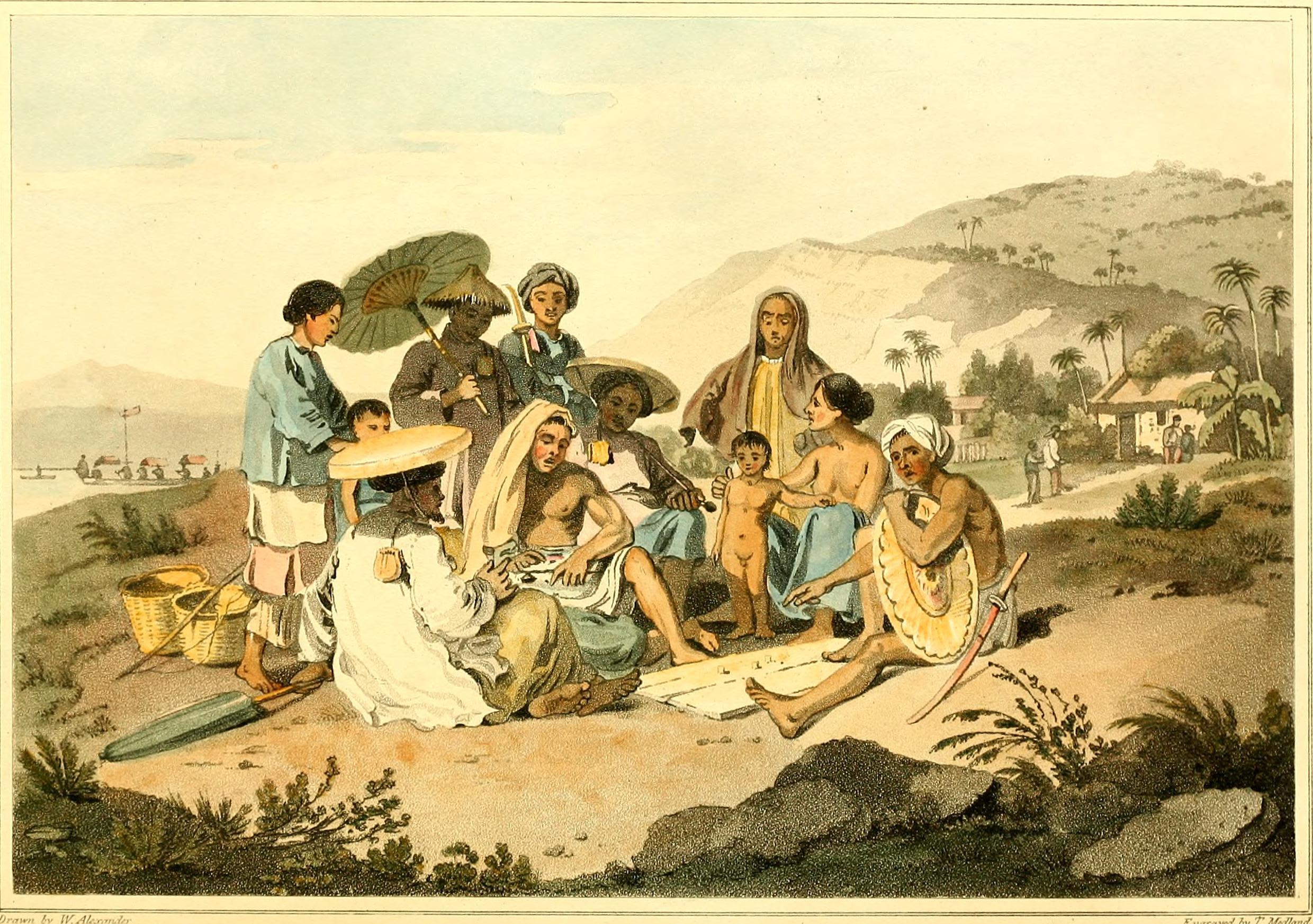 Title: A voyage to Cochinchina, in the years 1792 and 1793. To which is annexed an account of a journey made in the years 1801 and 1802, to the residence of the chief of the Booshuana nation Year: 1806 (1800s) Authors: Barrow, John, Sir, 1764-1848 Subjects: Voyages and travels Tswana (African people) Publisher: London, T. Cadell and W. Davies Text Appearing Before Image: ; and, likethese people, the universal custom of chewing areca andbetel, by reddening the lips and blackening the teeth, gi\esthem an appearance still more unseemly than nature in-tended. The dress of the women was by no means fascinat- 7 Text Appearing After Image: C O C H IN C H IN A. 309 ing. A loose cotton frock, of a brown or blue colour, reachingdown to the middle of the thigh, and a pair of Ijlack nankintrowsers made very wide, constitute in general their commonclothing. With the use of stockings and shoes they are wholl yunacquainted; but the upper ranks wear a kind of sandalsor loose slippers. As a holiday dress, on particular occasions,a lady puts on three or four frocks at once, of difterentcolours and lengths; the shortest being uppermost. A wo-man thus dressed appears in the annexed print, which repre-sents a groupe of Cochinchinese and may be considered as afair specimxCn of their general appearance. Their long blackhair is sometimes twisted into a knot and fixed on the crownof the head, and sometimes hangs loose in flowing tressesdown the back, reaching frequently to the very ground.Short hair is not only considered as a mark of vulgarity, butan indication of degeneracy. The dress of the men has littleif any thing to distinguish it